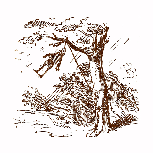 Illustration: the adventures of Pinocchio. Chapter XV: Pinocchio hanged on the great oak.